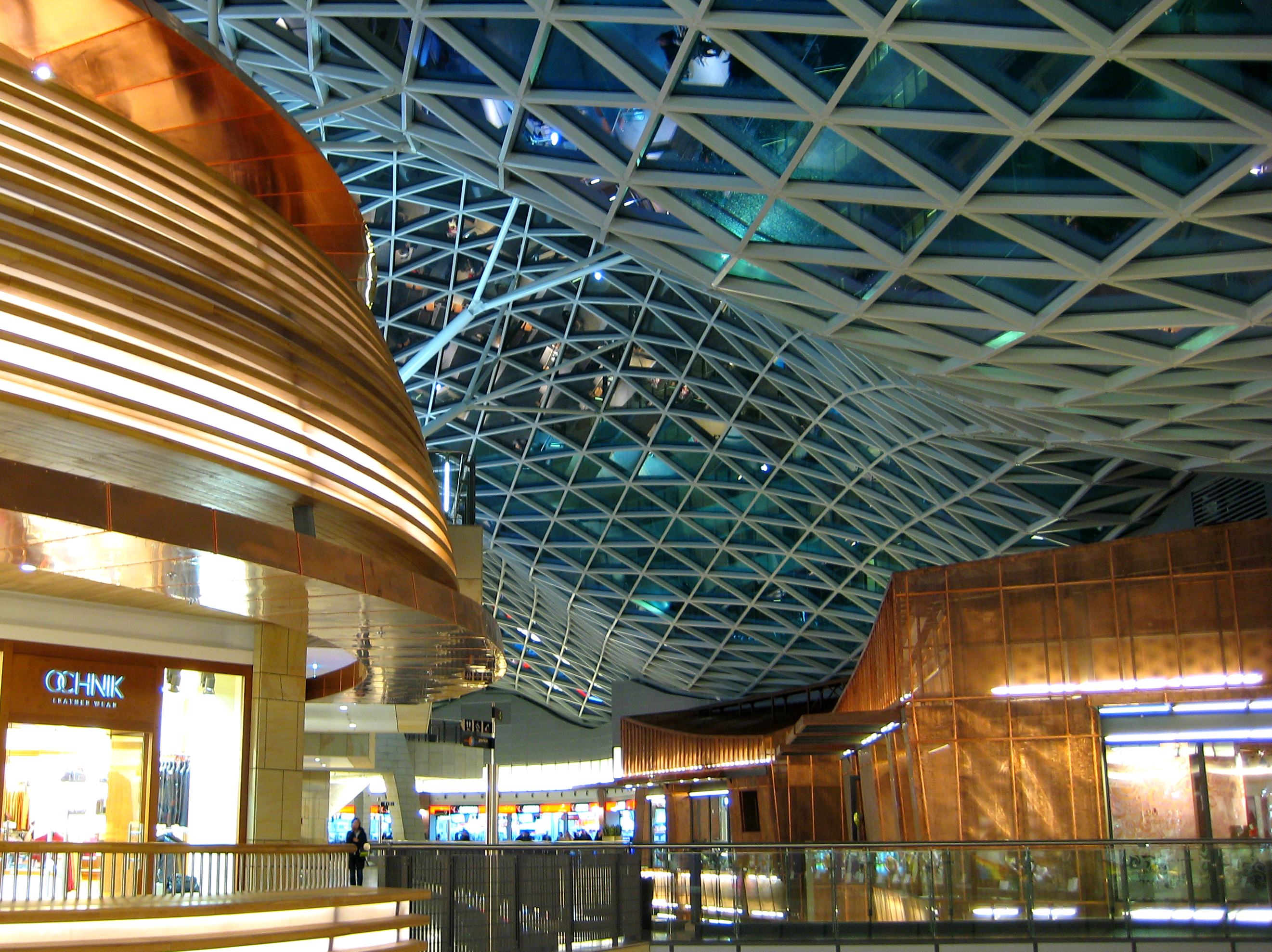 Zlote Tarasy in Warsaw. Shopping Mall